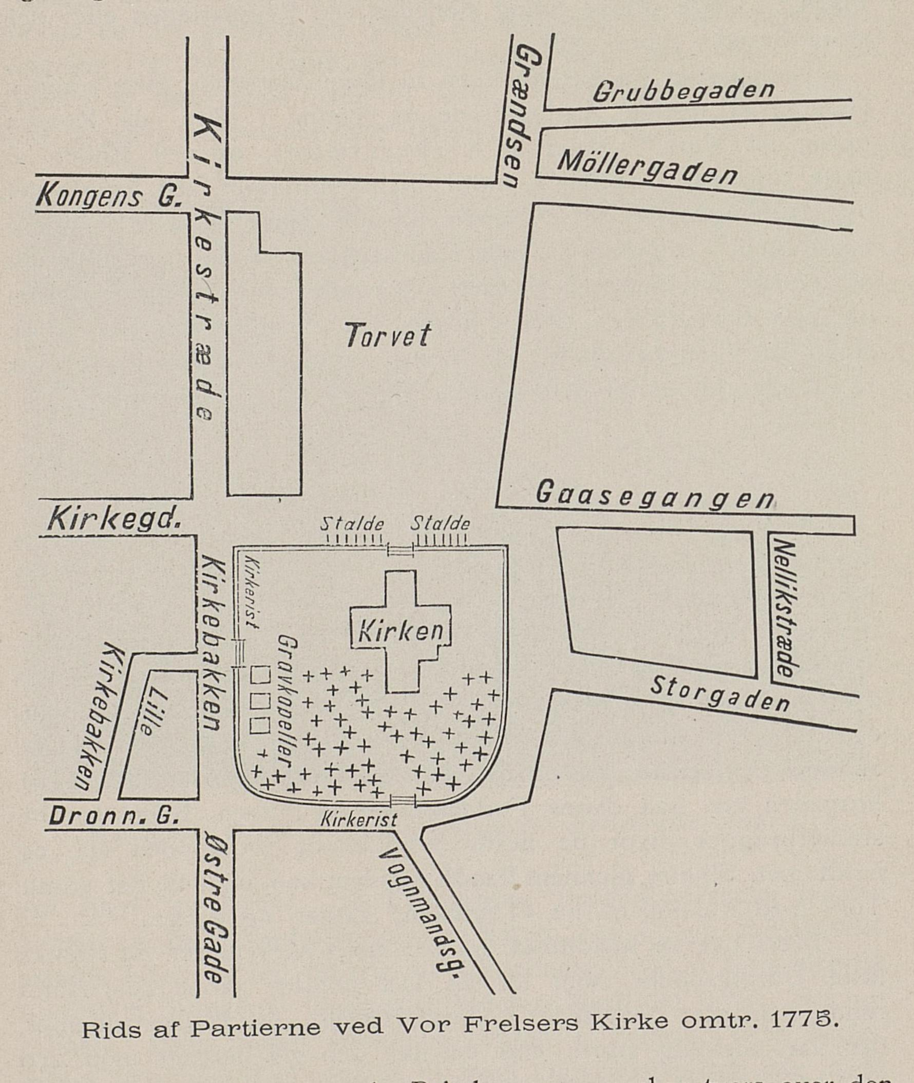 Illustrasjon hentet fra boken "Gamle Christiania-billeder" av Collett, Alf og utgitt av Cappelen (Christiania, 1893). Publisert på Bokhylla.no